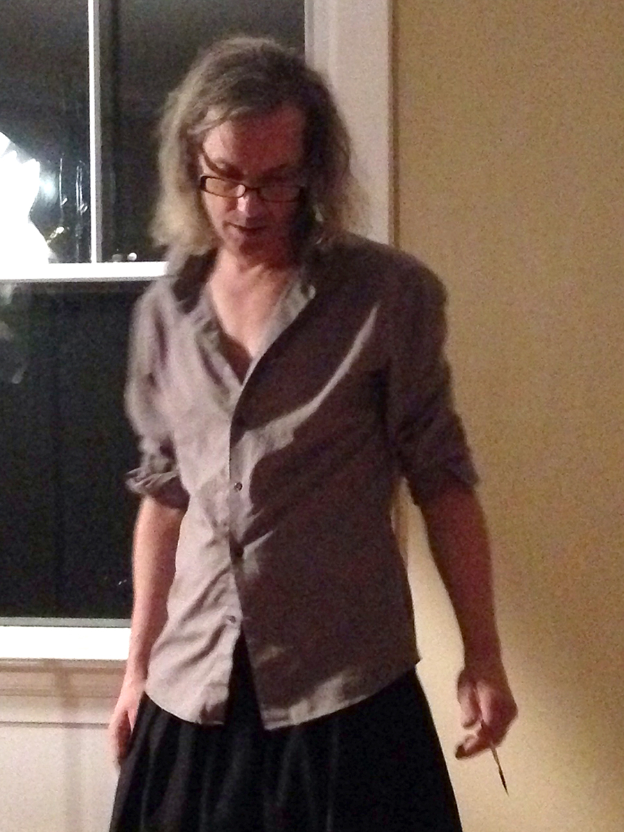 Filmmaker and multimedia artist Michael Pope on set